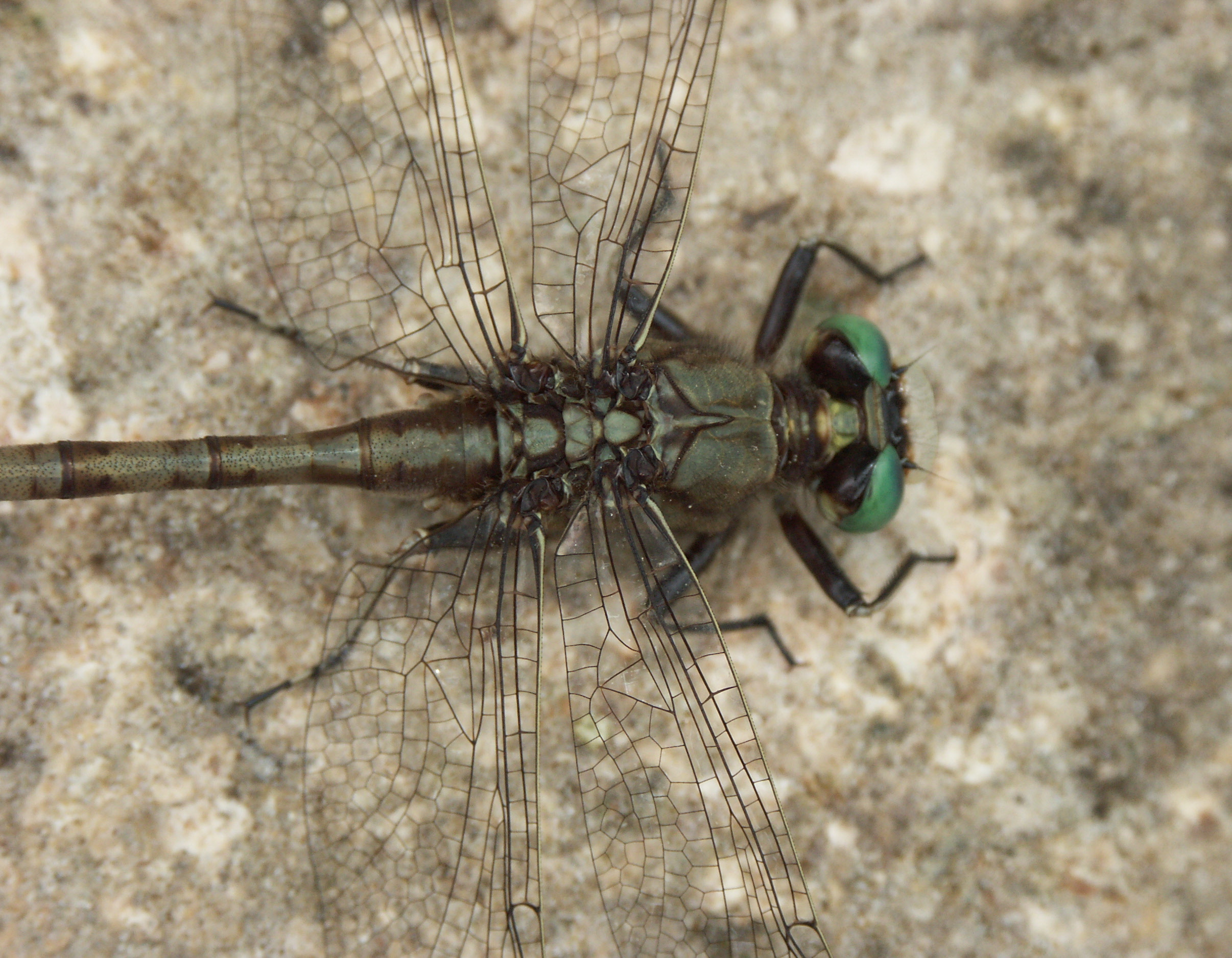 Arigomphus pallidus, Gray-green Clubtail, male, ID Confidence: 98